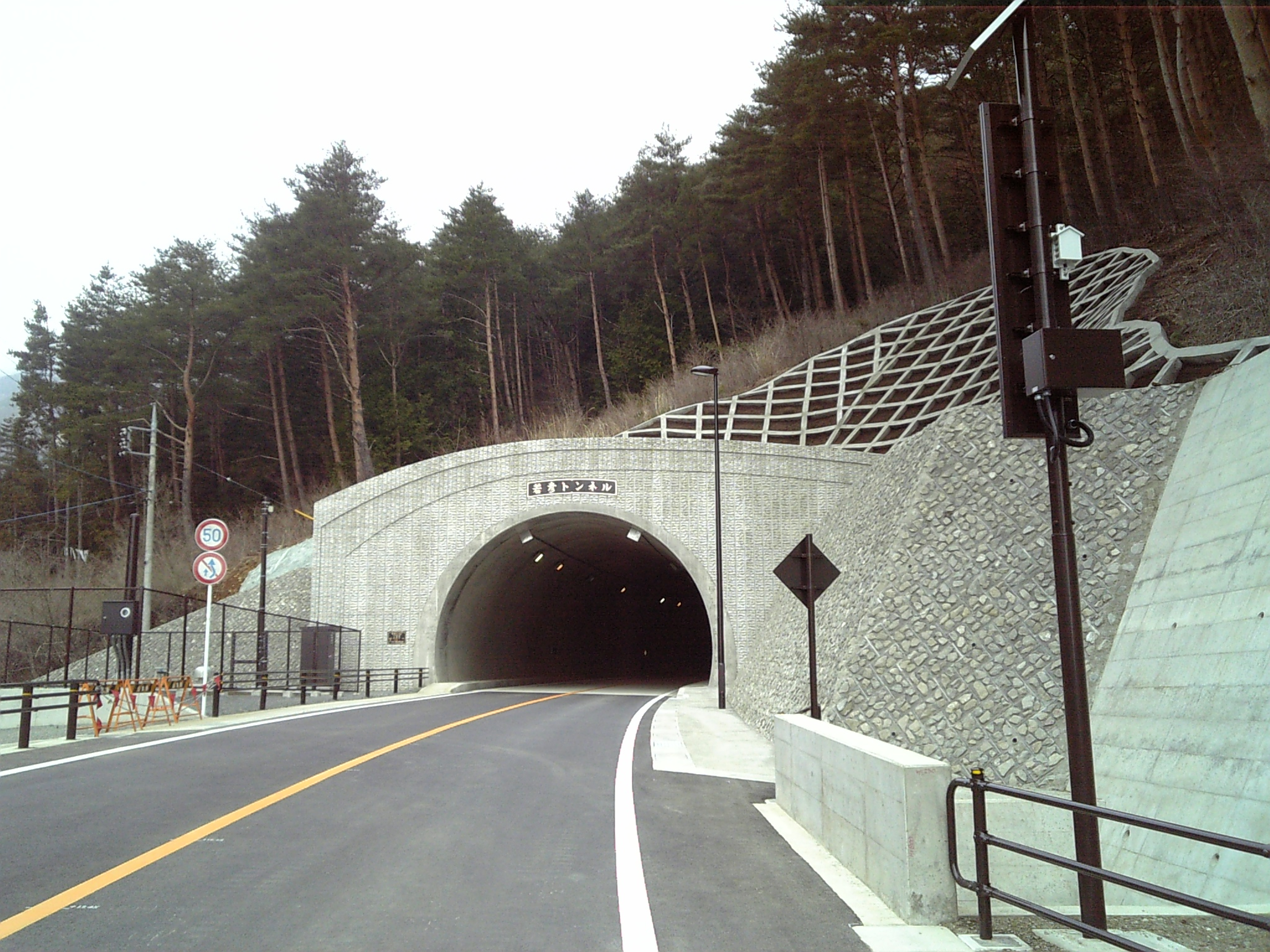 Wakahiko Tunnel south entrance